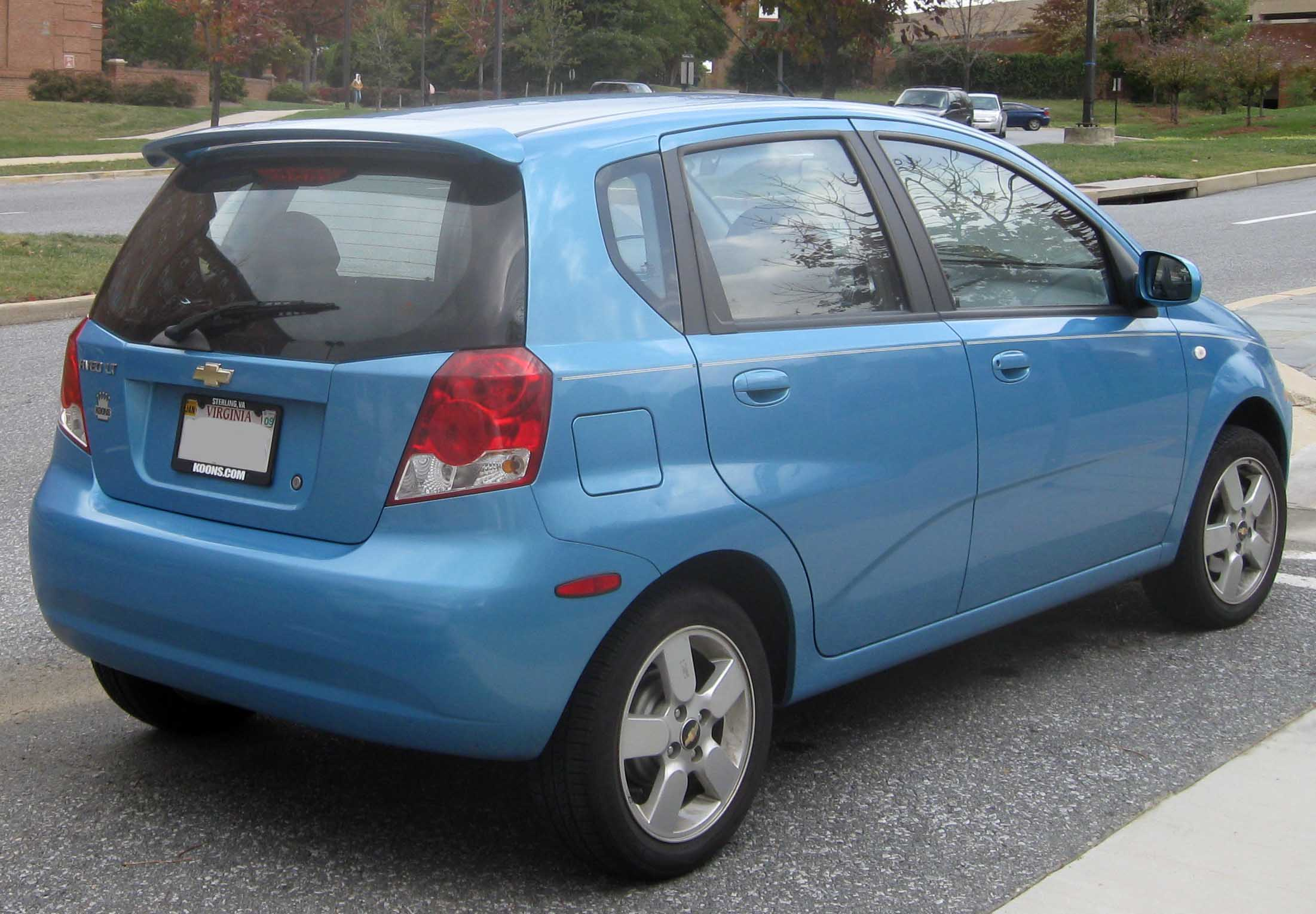 2004-2006 Chevrolet Aveo photographed in College Park, Maryland, USA.